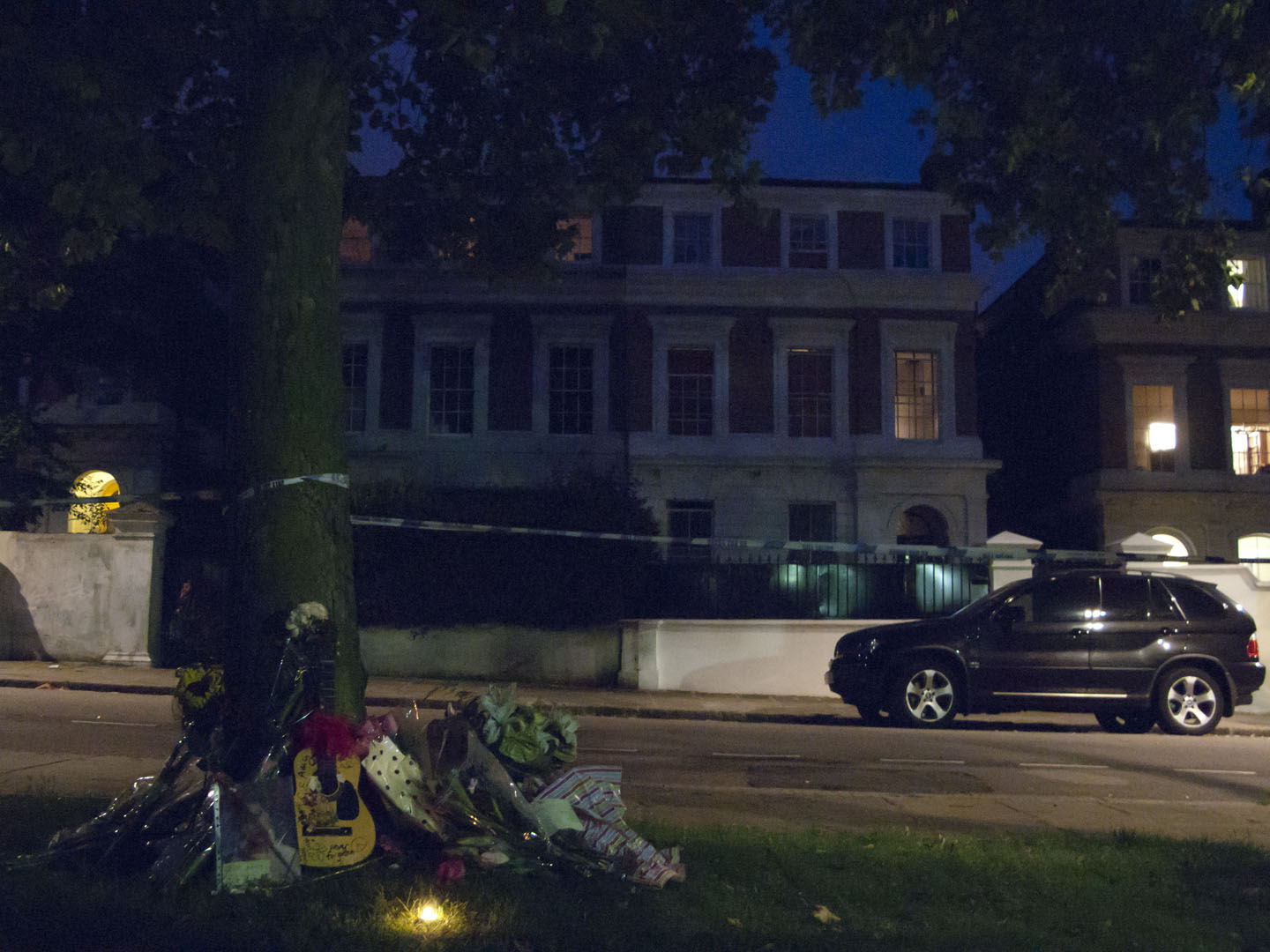 Flowers, photos and other tributes outside the home of Amy Winehouse in Camden, London, after her death on July 23, 2011.